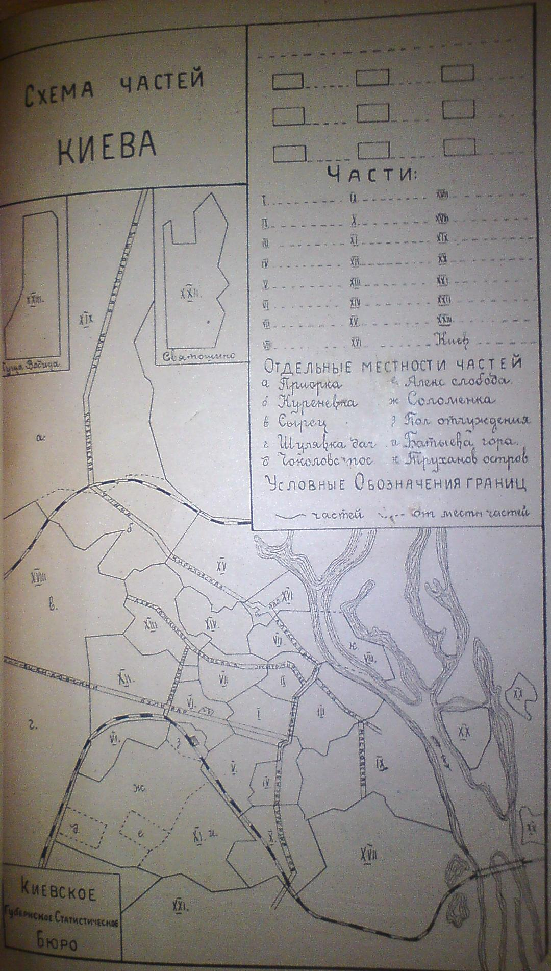 Census 1919 division of Kyiv